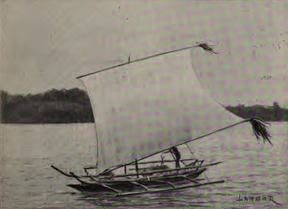 Bajao boat with sail unrolled